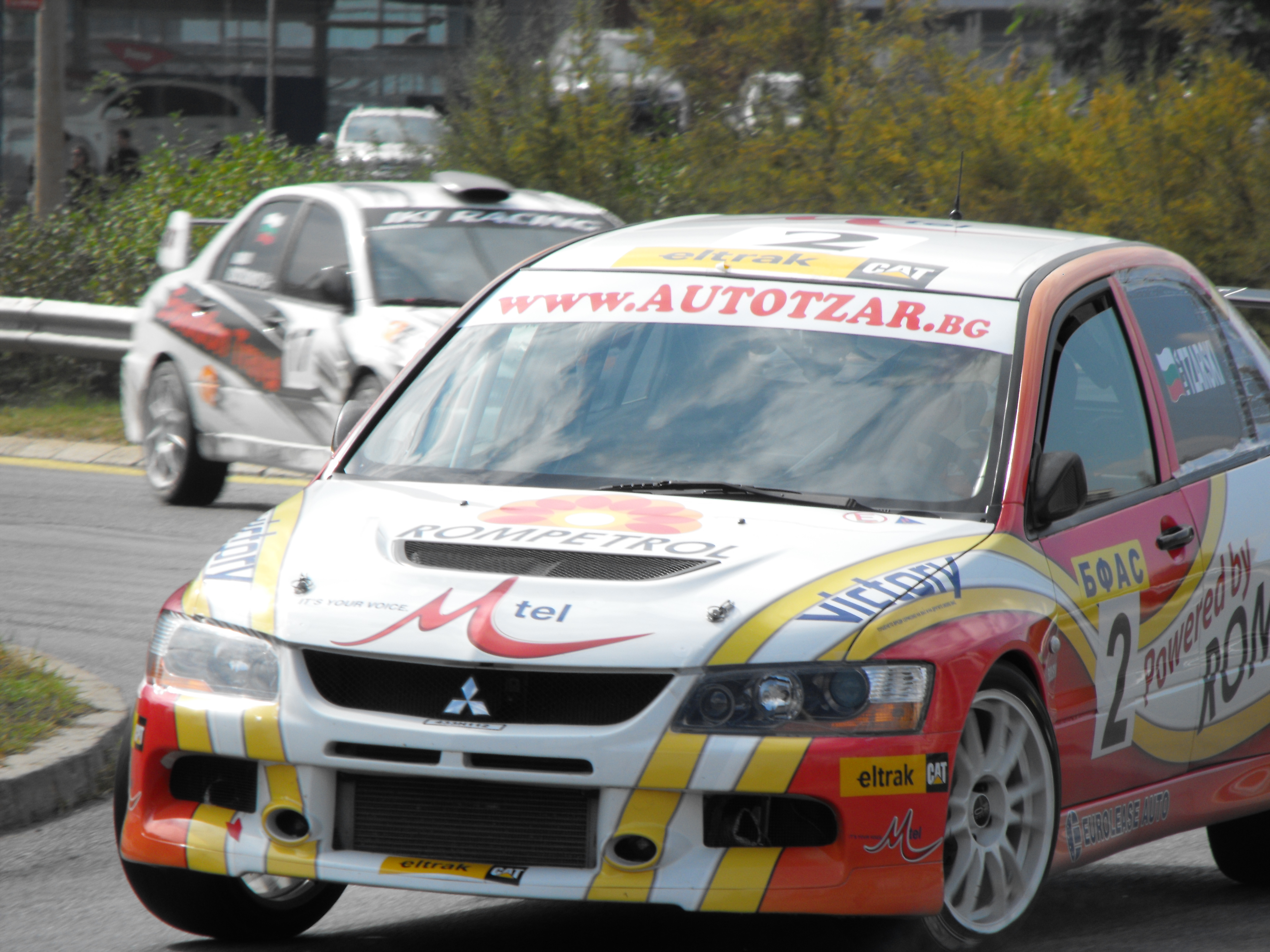 Iliya Tzarski - Bulgarian racecar driver